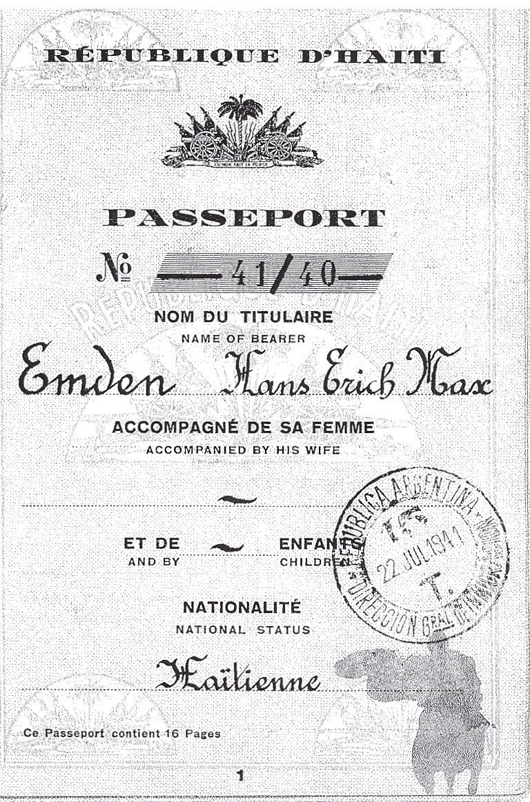 Passport issued to Hans Erich Max Emden by the Haitian government, who managed to escape the holocaust. In 1941 he used it to travel to Argentina. Image courtesy of the American Jewish Joint Distribution Committee (JDC-NY).